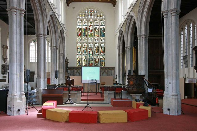 St Andrew Undershaft, St Mary Axe, EC2 - East end